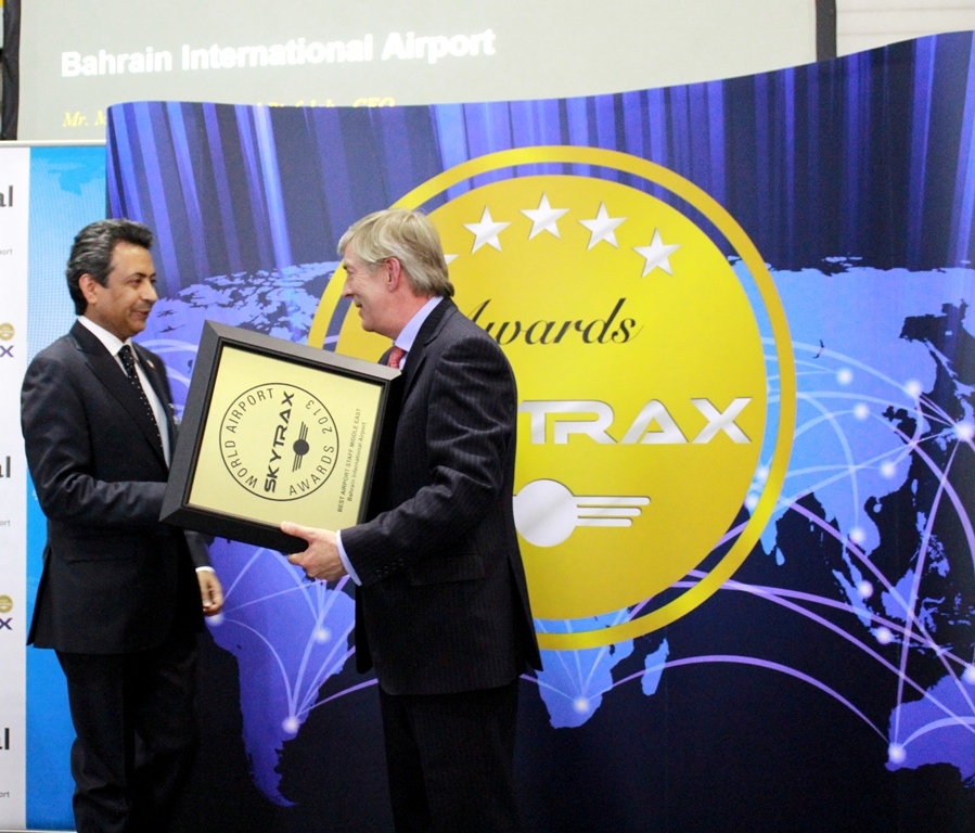 Bahrain International Airport staff named the Middle East’s Best Endorsed as an internationally renowned airport in the Middle East at the SKYTRAX World Airport Awards with various nominations Geneva, Switzerland, 14th April, 2013: Bahrain International Airport (BIA) staff members were voted as the Middle East’s Best Airport Staff at one of the industry’s most prestigious awards, the 2013 SKYTRAX World Airport Awards held at Passenger Terminal EXPO in Geneva, Switzerland.